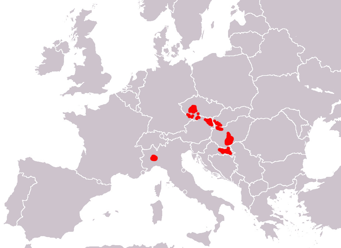 Distribution of the giant liver fluke Fascioloides magna in Europe (in years 2000-2007)